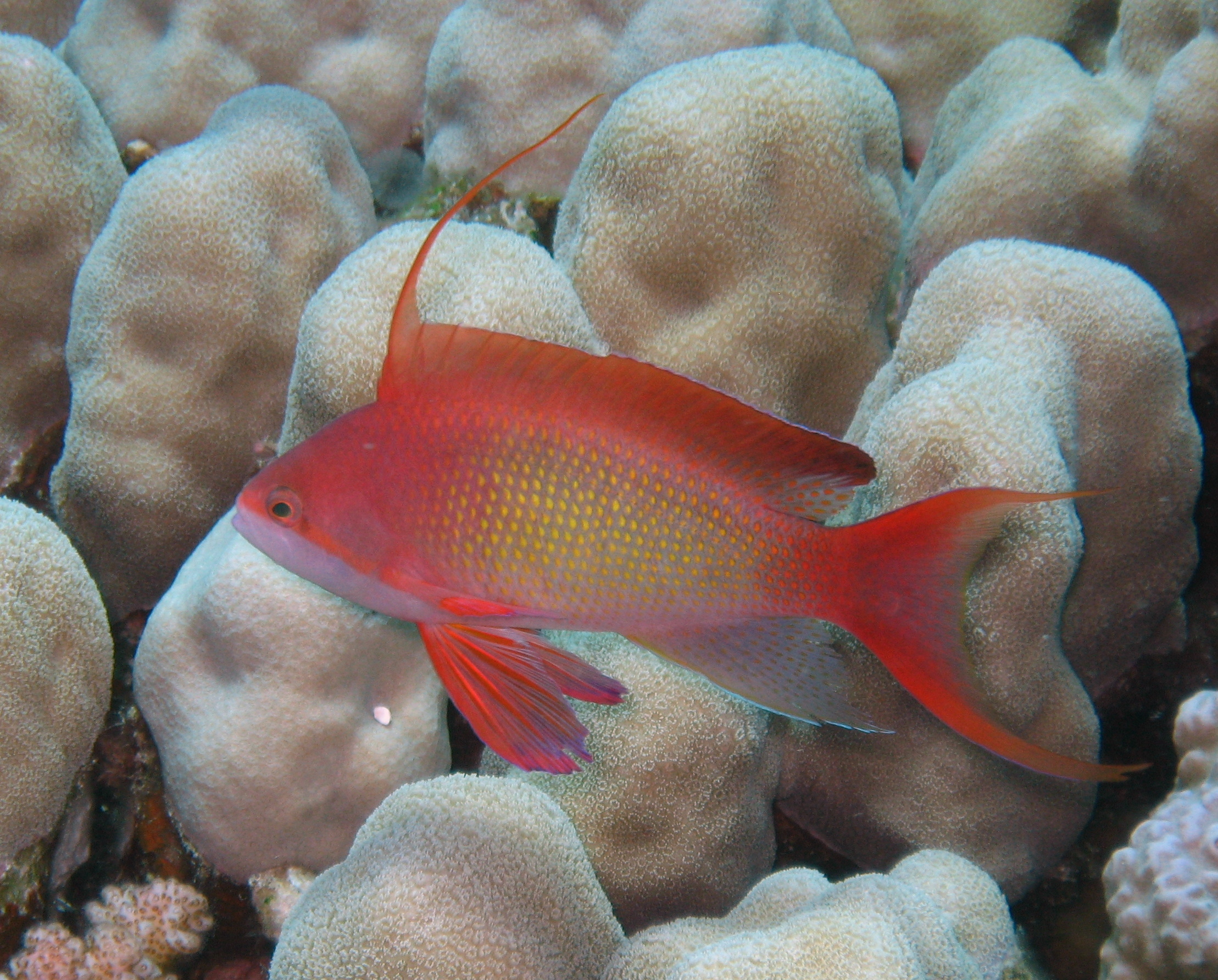 Mâle Pseudanthias squamipinnis in Safaga